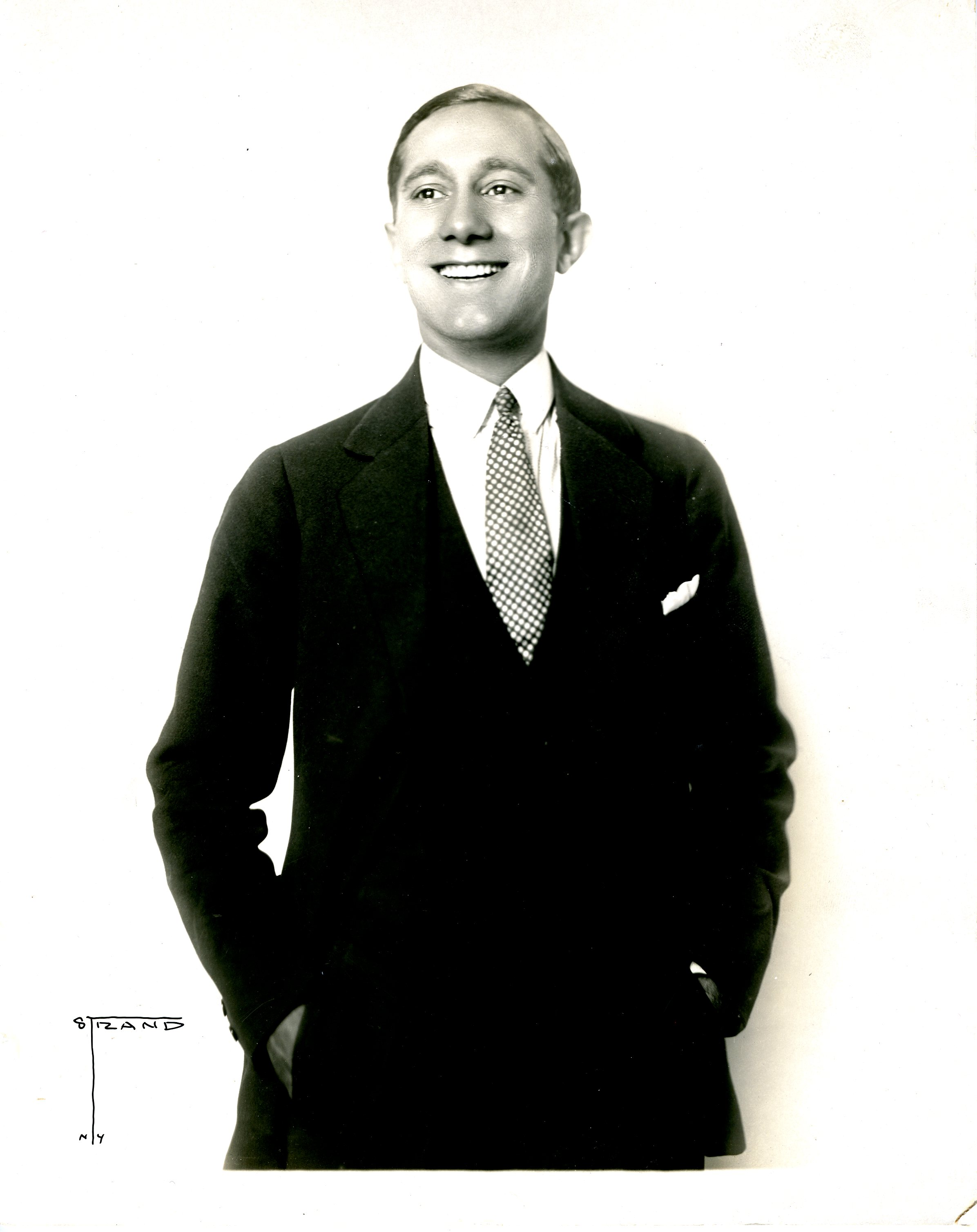 Al Morton